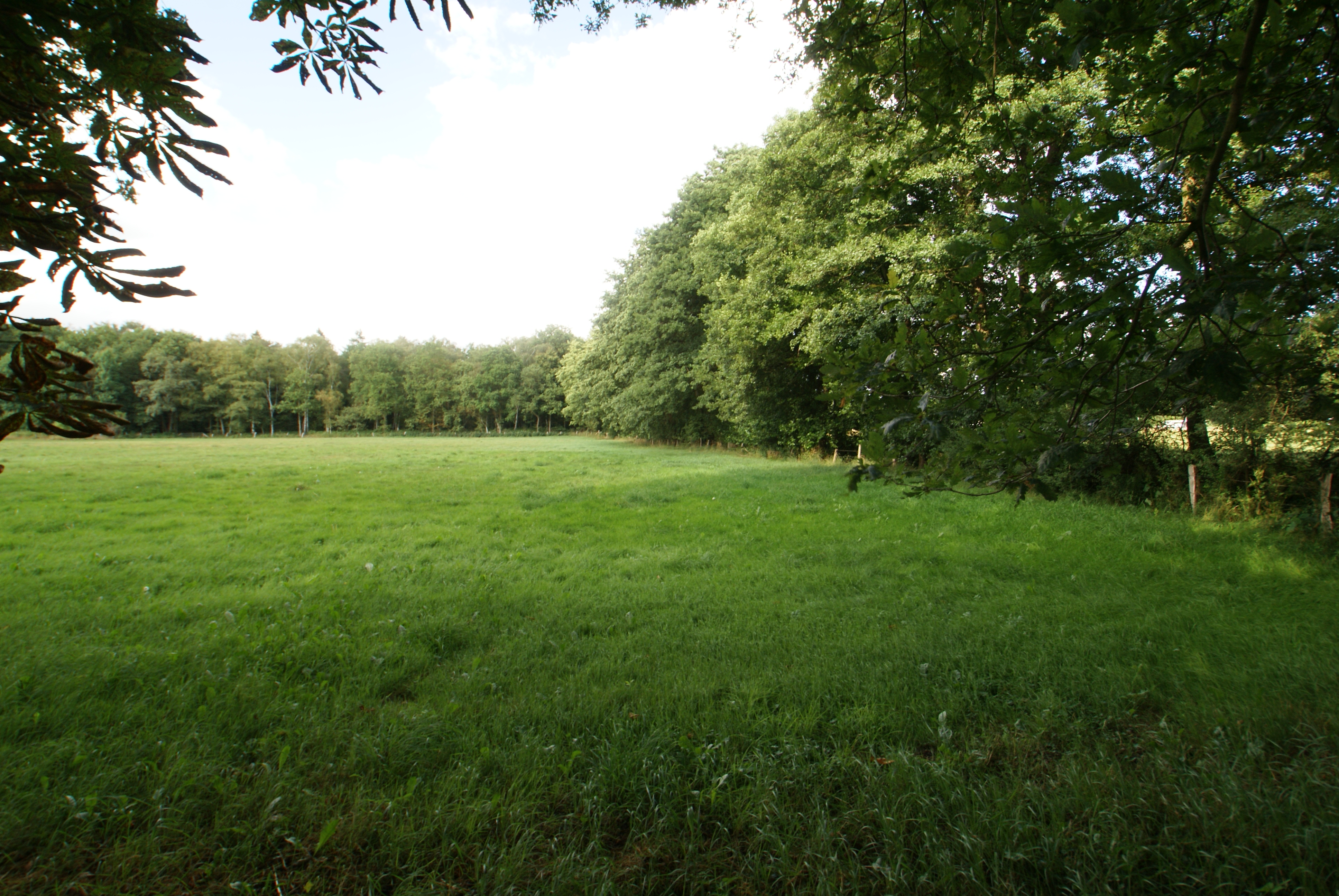 Hasloh, Germany: The valley of the river Mühlenau (Pinnau)